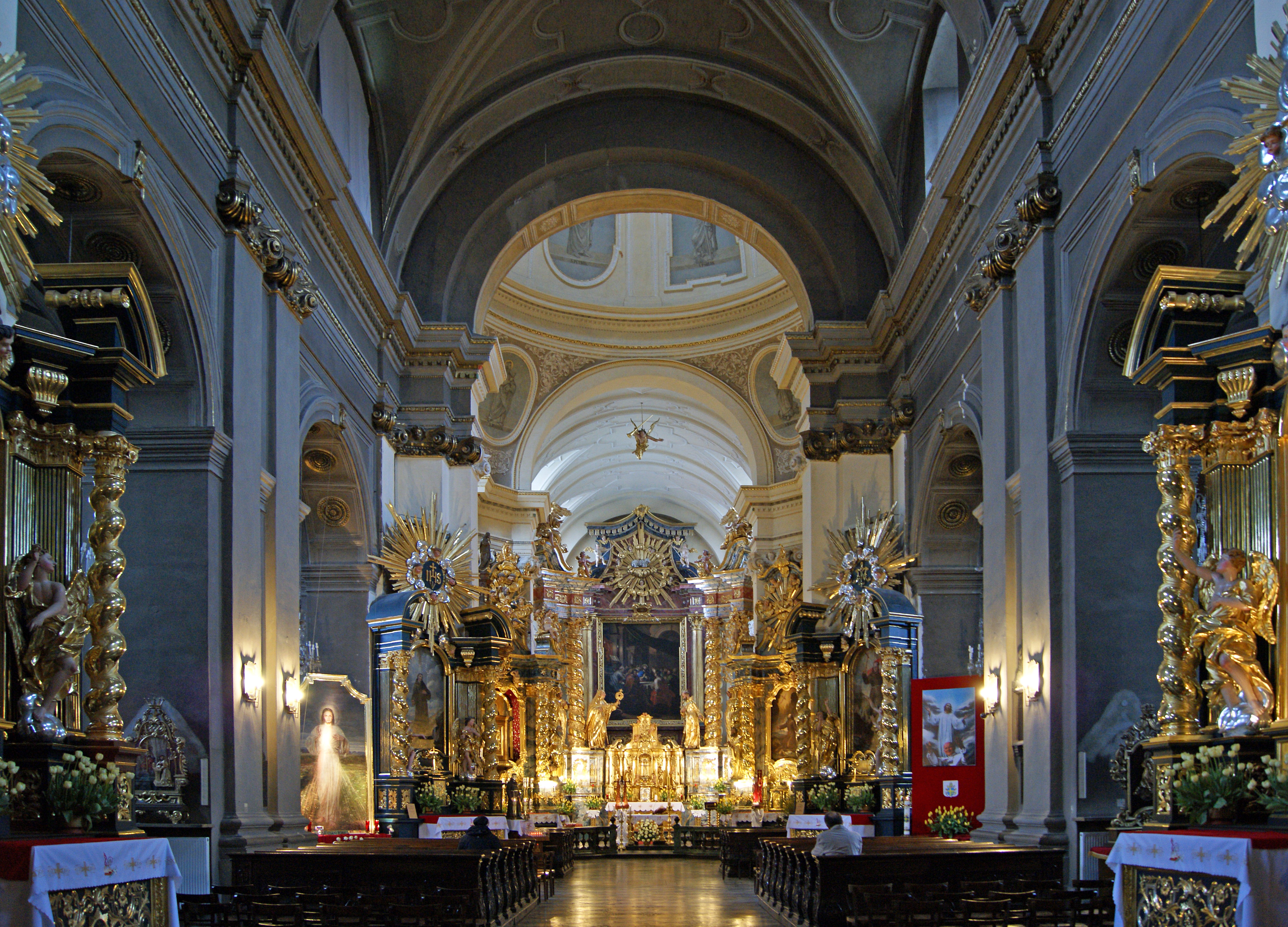 Church of St Bernardine of Siena (interior), 2 Bernardynska street, Stradom, Krakow, Poland